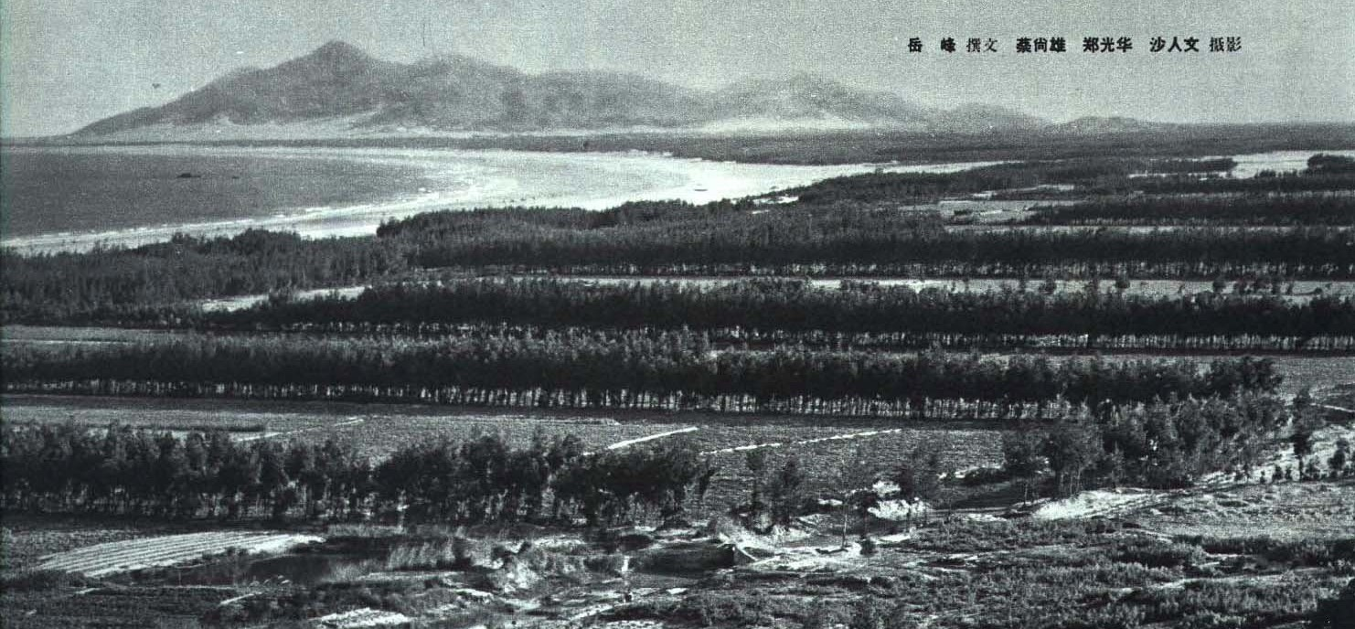 1965-01 福建东山岛